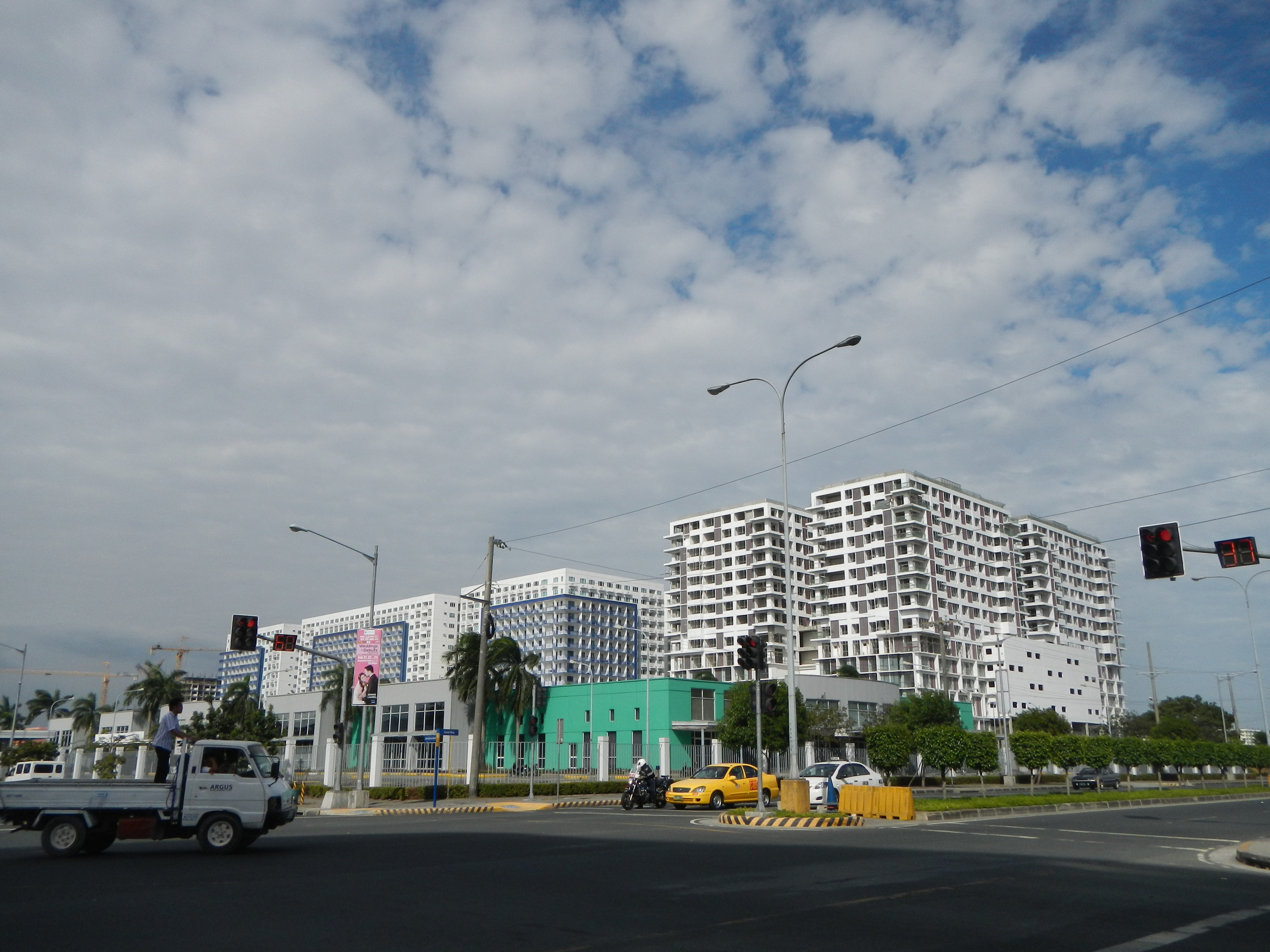 Upload Wizard photos of the - a) Redemptorist Bridge (Bay City, Metro Manila) , Philippine Reclamation Authority 57.5 meter bridge connecting Central Business Park I Island A and Central Business Park I Islands B and C - gateway to - Aseana City (Parañaque City) - Aseana Avenue [1] Coordinates: 14°31'37"N 120°59'16"E [2] 2nd Floor, Aseana Powerstation, Bradco Avenue cor. President Diosdado Macapagal Blvd. Aseana City, Parañaque [3] - in b) Bay City, Metro Manila [4] the reclamation area[5] located west of Roxas Boulevard on Manila Bay in Metro Manila, the Philippines asplit between the cities of Pasay [6] on the north side and Parañaque[7] on the south side beside the carpark of SM Mall of Asia[8] (the fourth largest shopping mall in the world), and is considered an important part of the Mall of Asia Complex (a 60-hectare business and leisure park) owned by the SM Group of SM Prime Holdings and c) Mall of Asia Arena[9] beside the Car Park of SM Mall of Asia[10] and its Upload Wizard photos of the - SMX Convention Center [11].